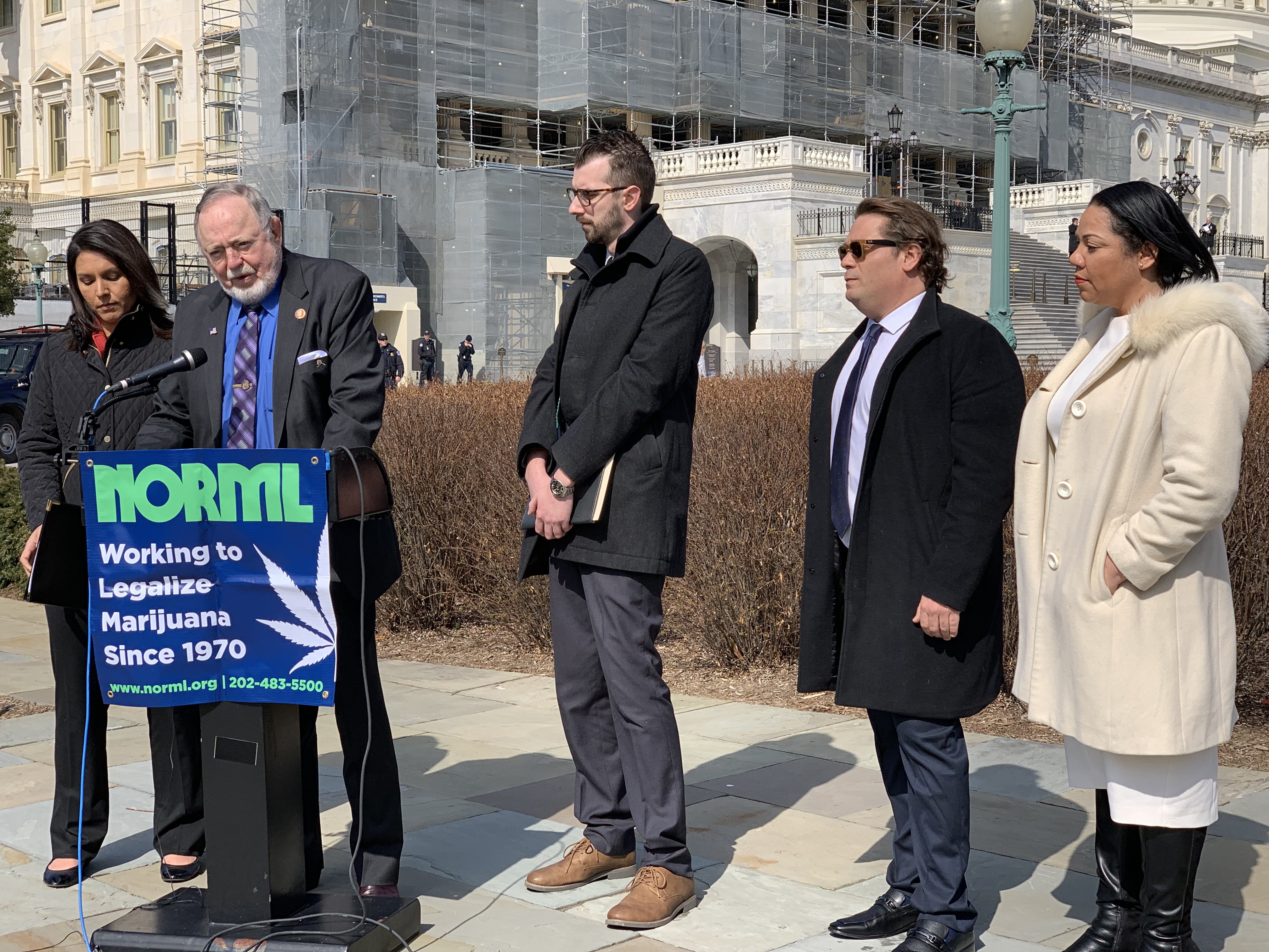 Congressman Don Young and Congresswoman Tulsi Gabbard speak in support of the Ending Federal Marijuana Prohibition Act at a press conference hosted by NORML